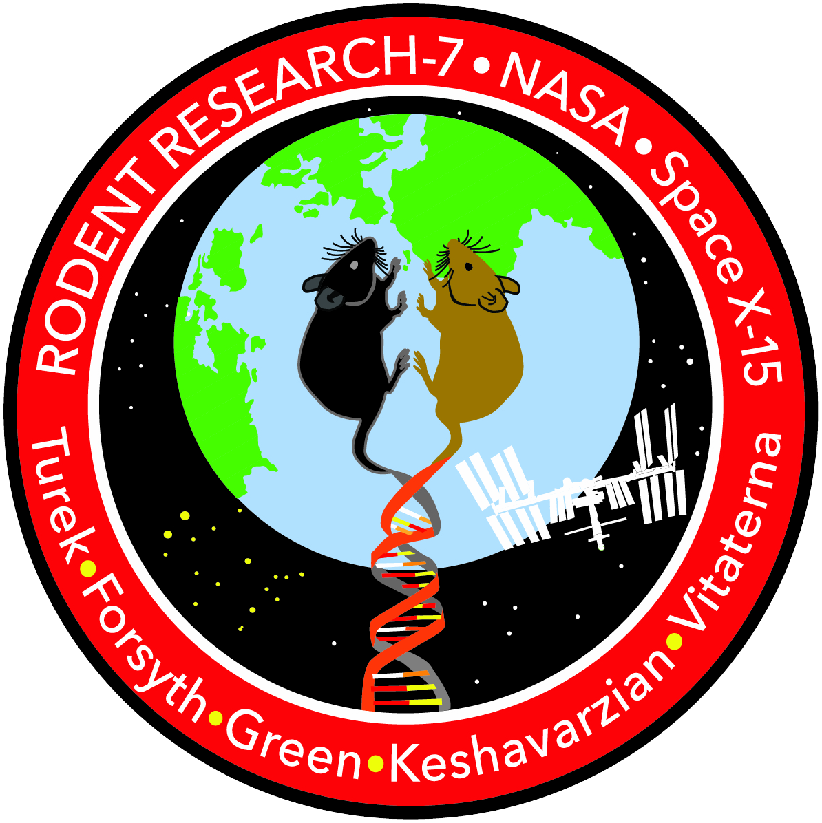 This is the NASA mission patch for the Rodent Research-7 Experiment.